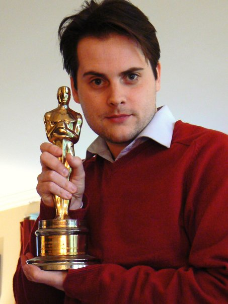 Actor Frazor Brown with an Oscar (not his).